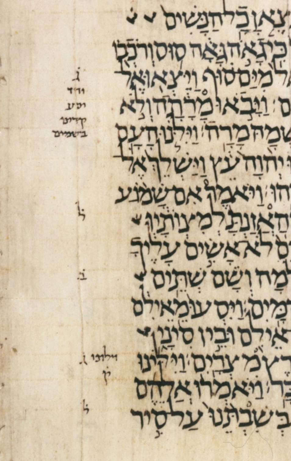 Leningrad Codex text sample. A very old manuscript of the hebrew bible. A former possession of karaït jews. They claim his author was karait, a position refused by rabbanite jews.